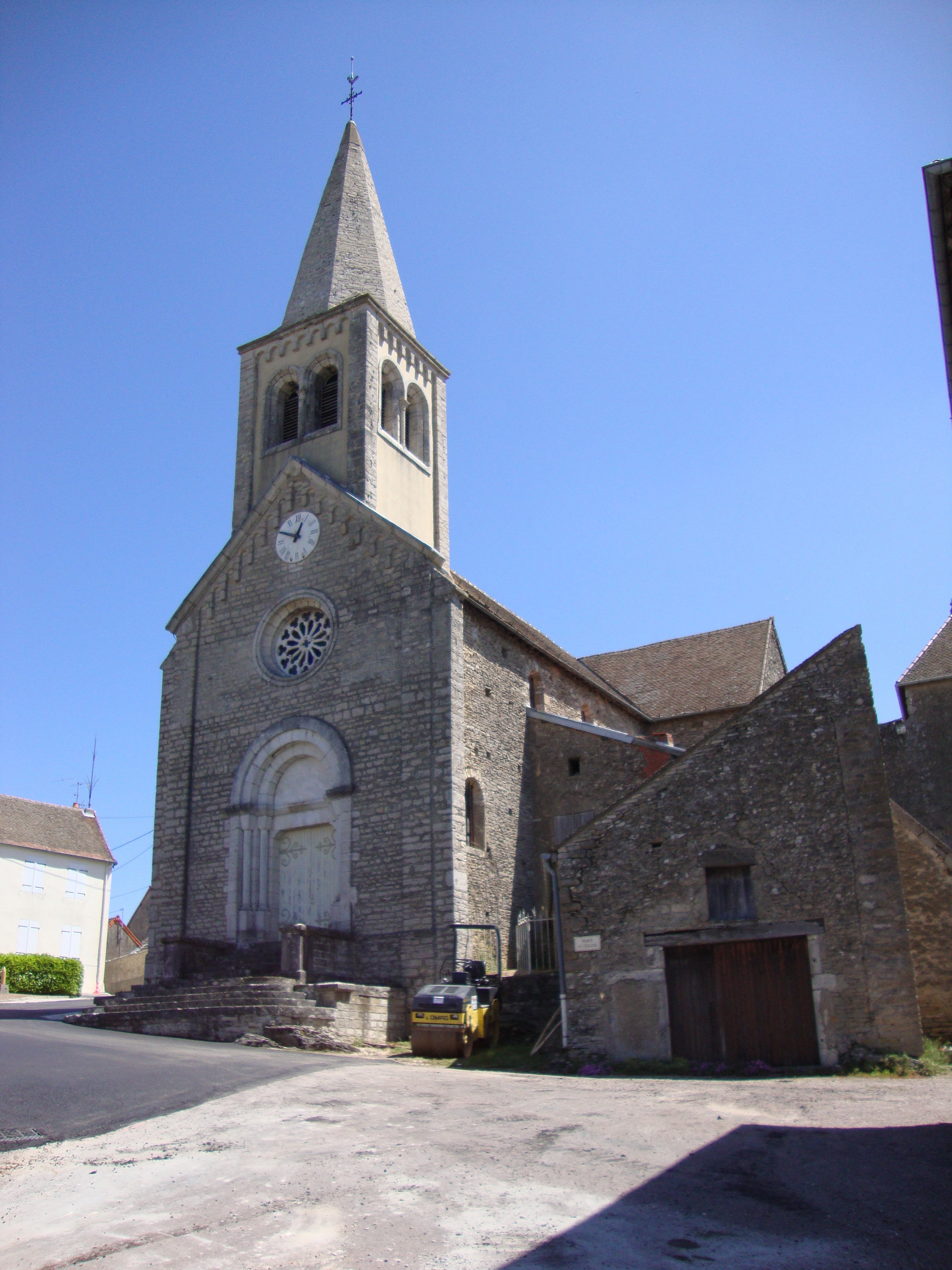 Aluze (Saône-et-Loire, Fr) church